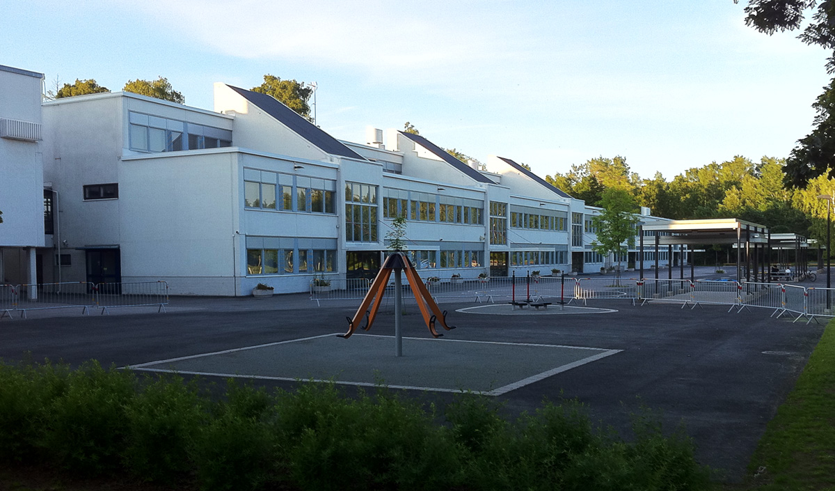 Laajasalo School, Helsinki